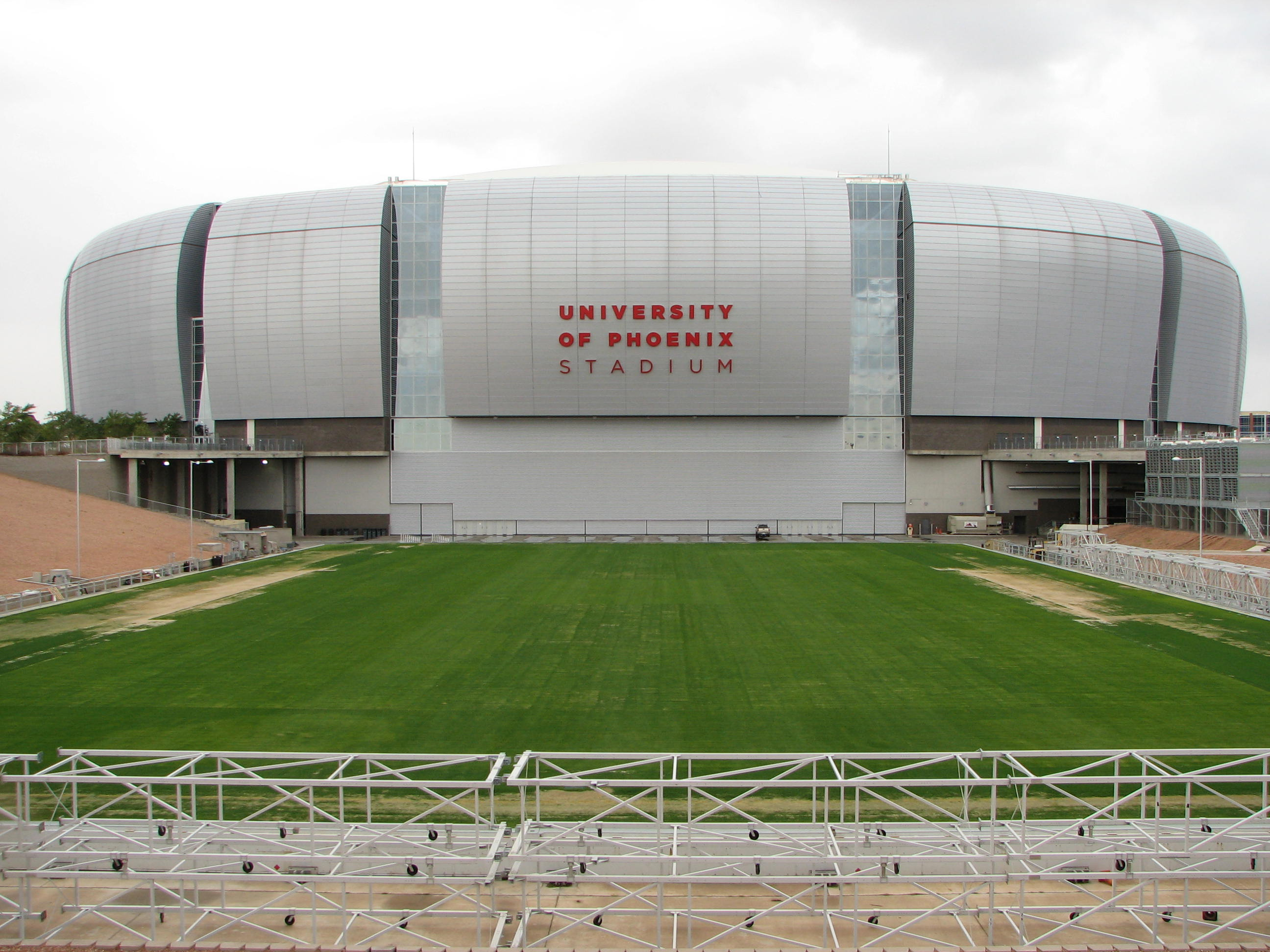 Removable field outside the University of Phoenix Stadium, Glendale, Arizona, USA